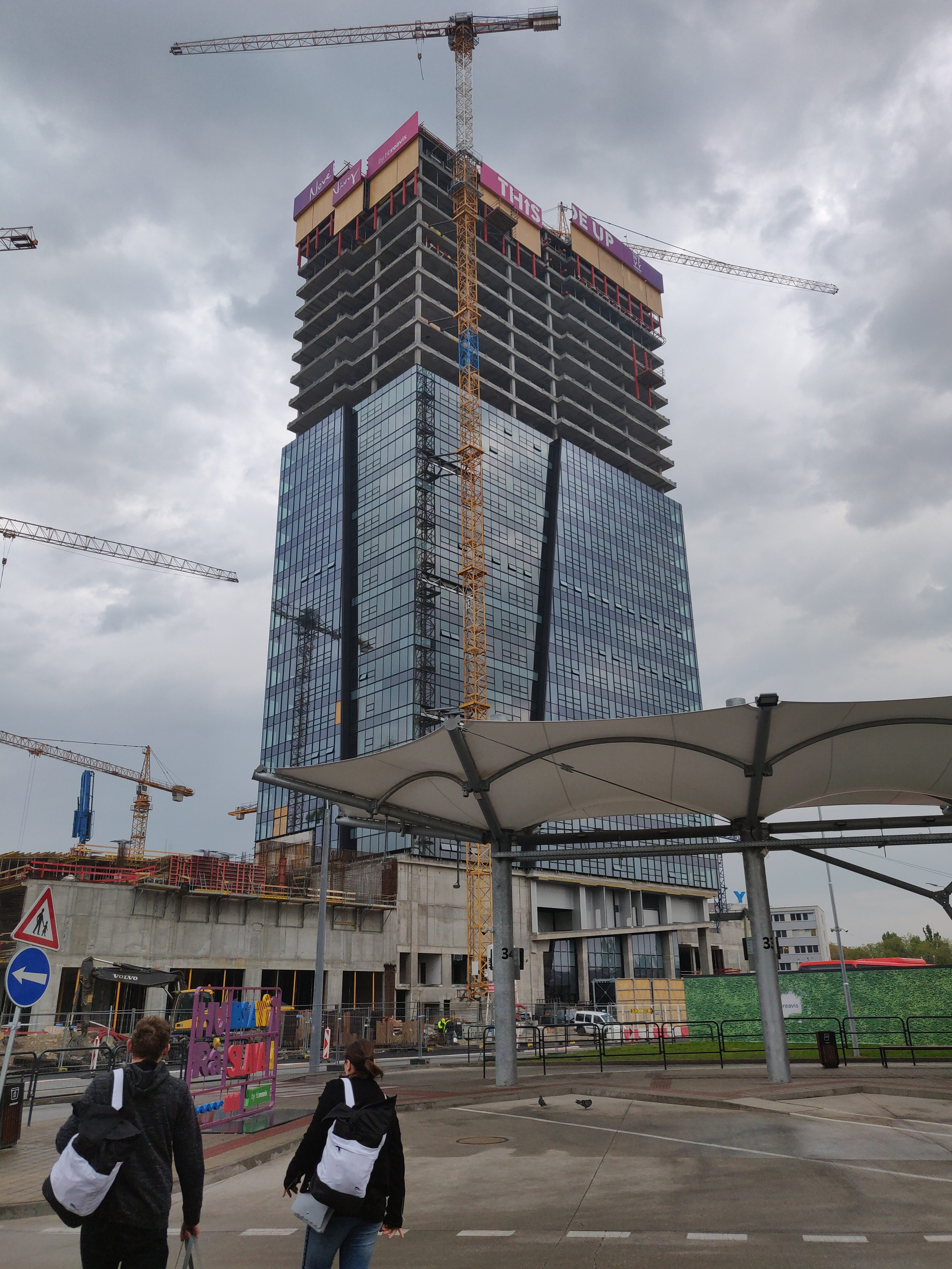 Bus station Mlynské Nivy, Bratislava